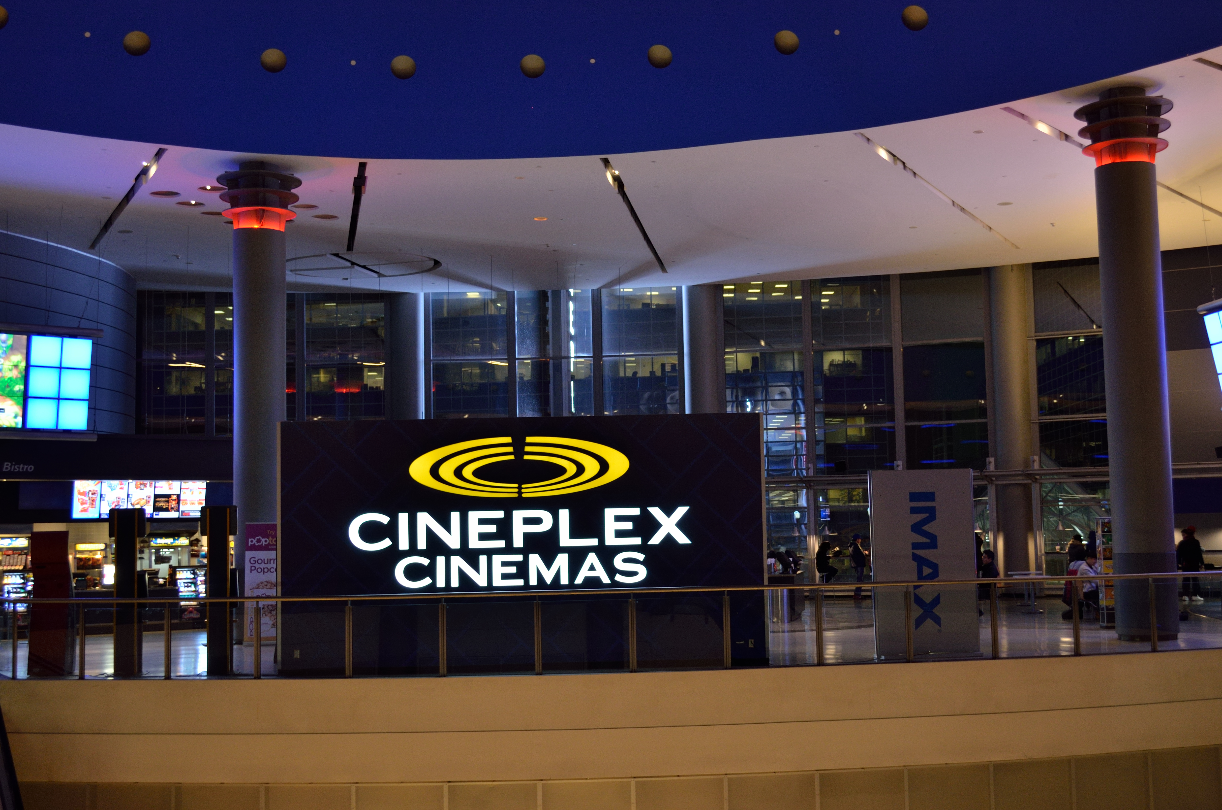 Cineplex Cinemas Empress Walk